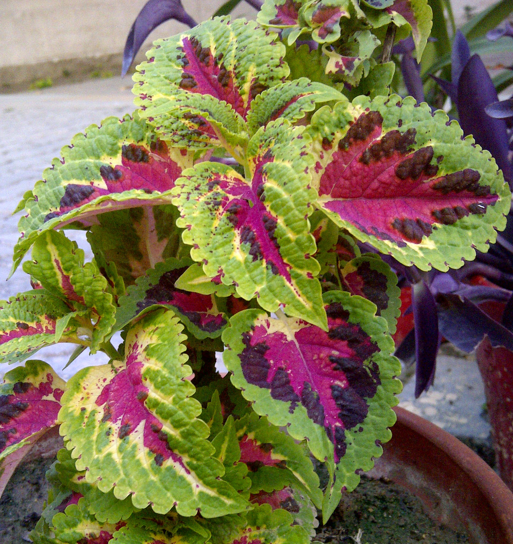 Plant